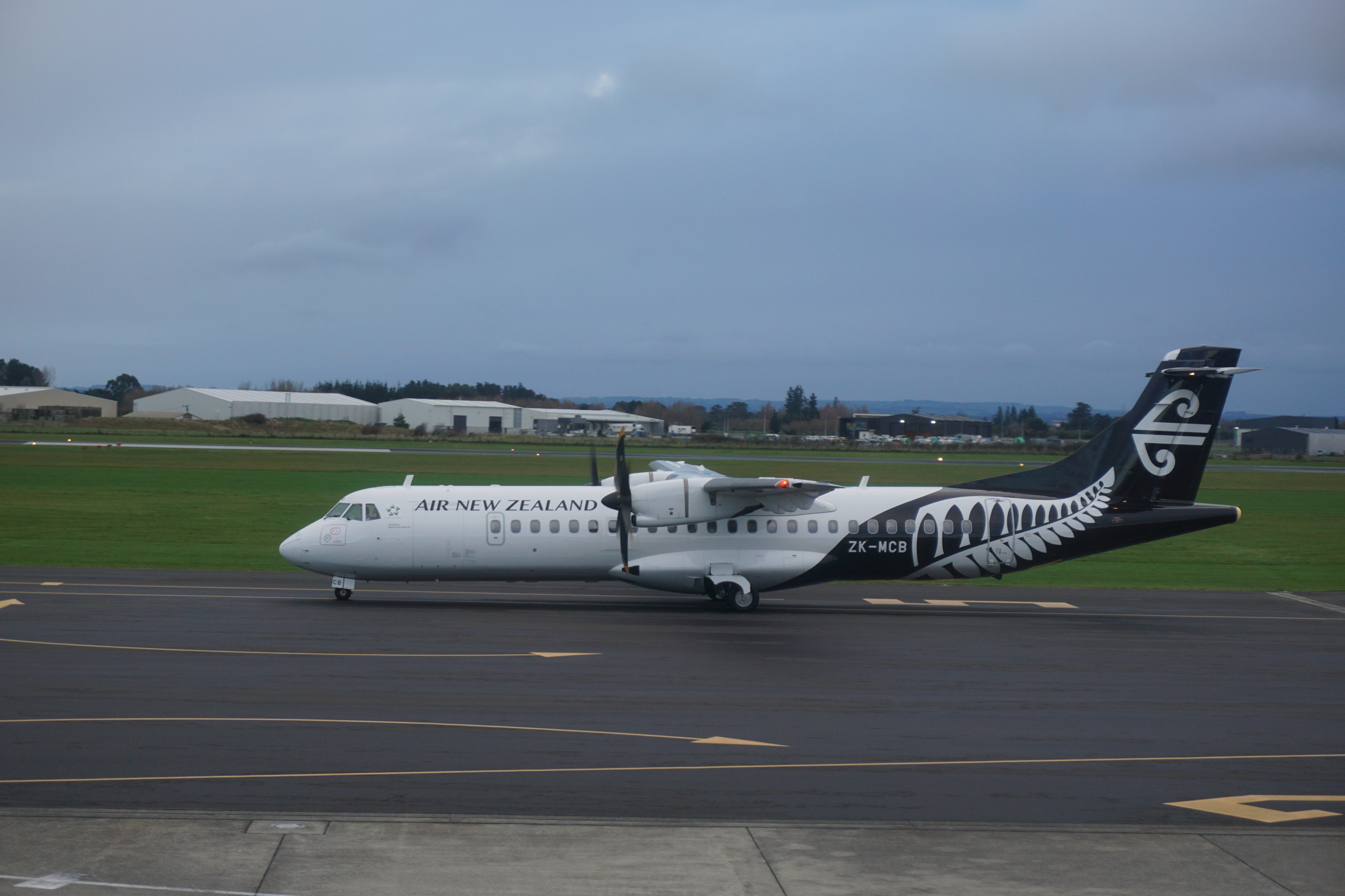 Air New Zealand ATR72 at Palmerston North Airport Arrived from Auckland as NZ5071